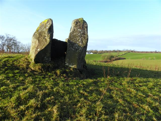 Chambered grave, Crosh (2)